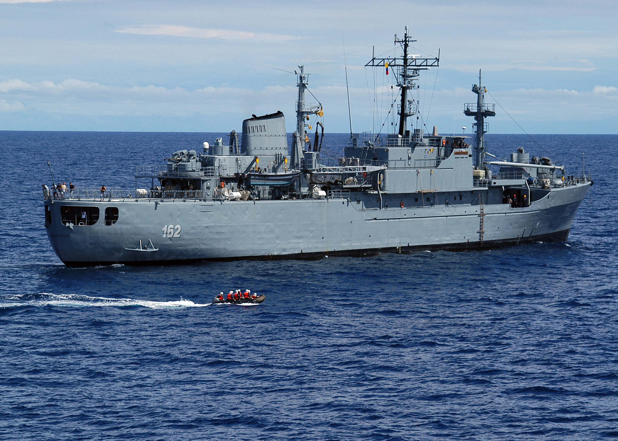 A special forces team comprised of Peruvian navy sailors approaches the Colombian ship ARC Buenaventura (BL 162) in a rigid hull inflatable boat while engaging in visit, board, search and seizure exercises during Fuerzas Alidas PANAMAX 2007 while under way in the Pacific Ocean Sept. 1, 2007. The U.S. Southern Command joint, multinational training exercise brings together military and civil forces from 19 countries to promote interoperability to counter threats to the Panama Canal. (U.S. Navy photo by Mass Communication Specialist 3rd Class Damien Horvath) (Released)